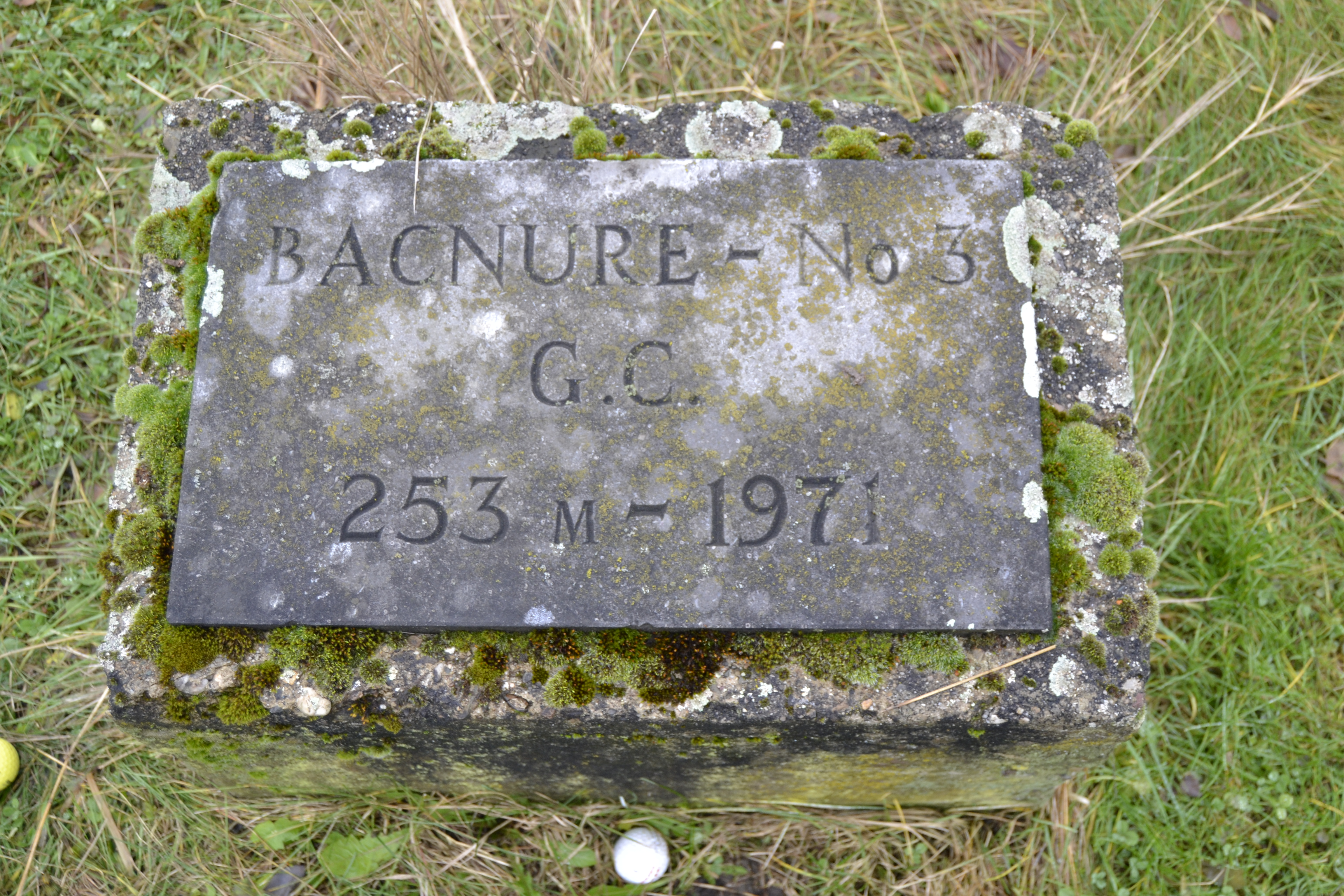 Ancient pit n° 3 of the Grande Bacnure coal mine, in Liège, Belgium. Golf balls on the photo, because it is located on the Bernalmont Golf Club training court. "GC" means "Gerard Cloes", which was the name of the pit, and not "Golf Club"...